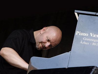 Henrik Gunde in Aarhus